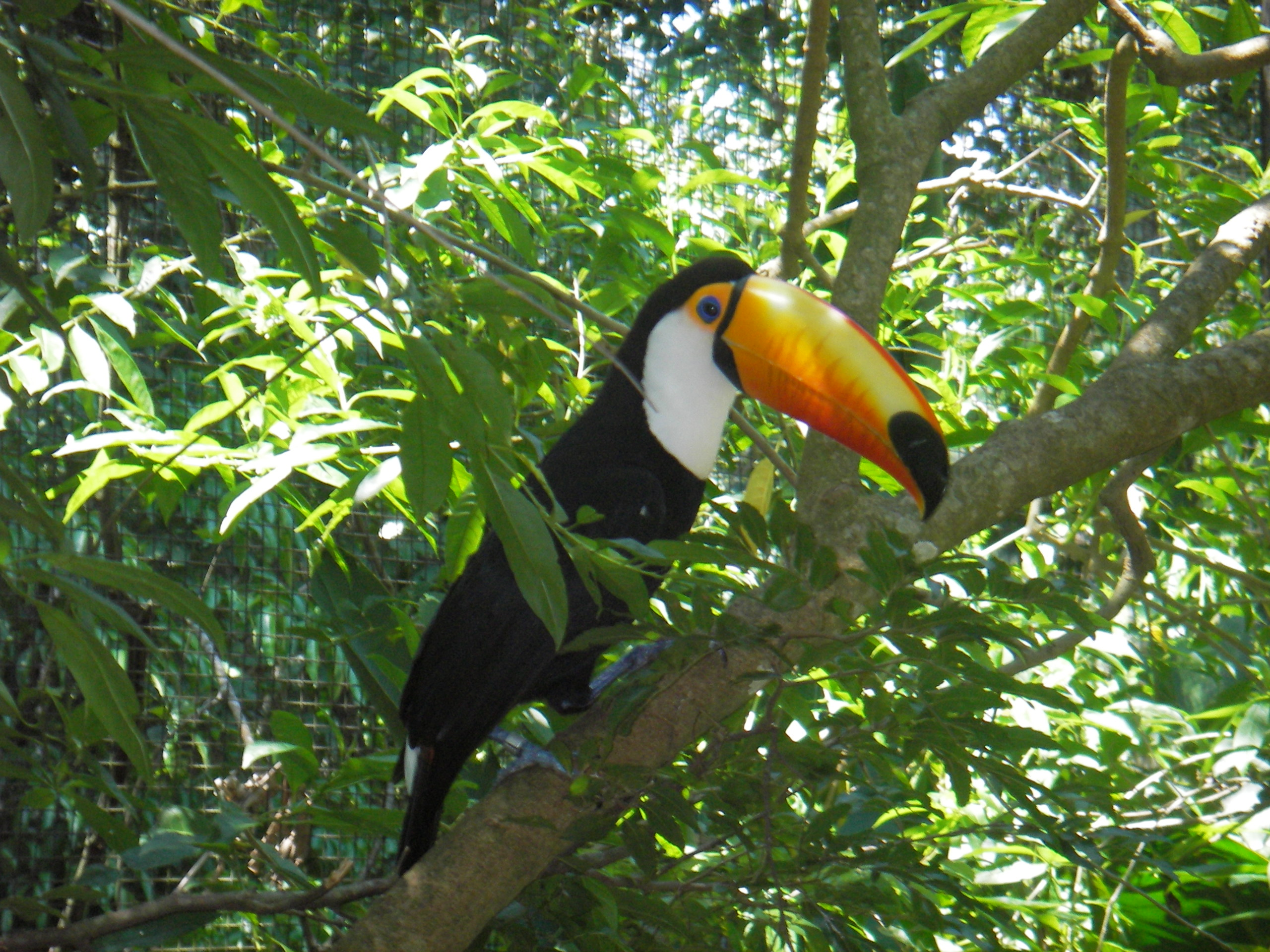 A Toco Toucan (Ramphastos toco) at the Foz Tropicana Bird Park near Iguazu Falls. Paraná, Brazil.